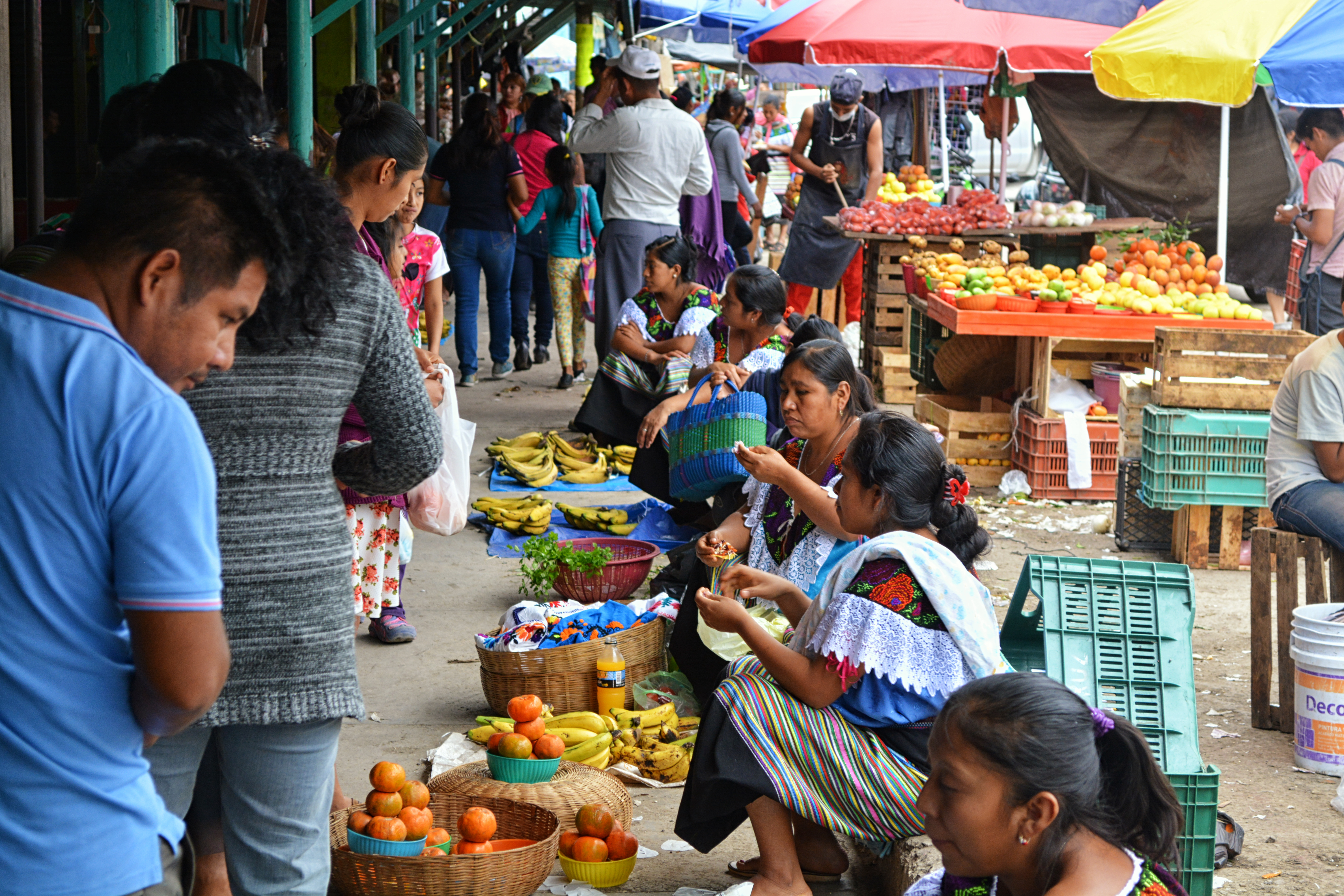 Women selling fruits. Belisario Dominguez market. Ocosingo, Chiapas.